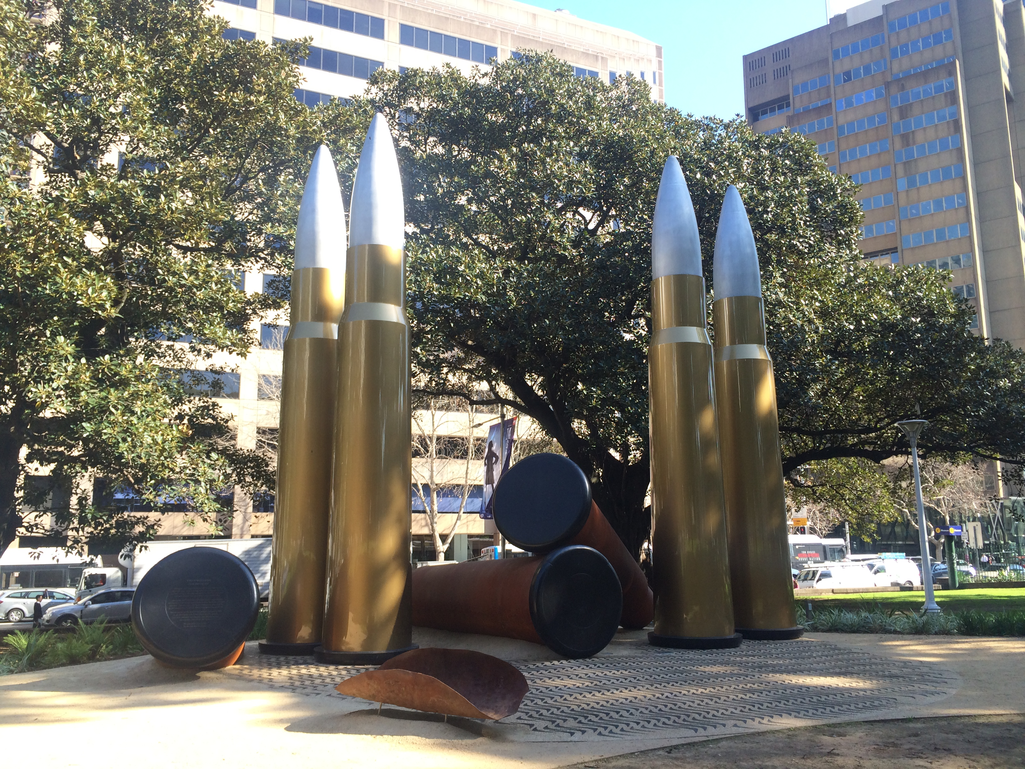 Photograph of Tony Albert's sculptural artwork 'Yininmadyemi' - Thou didst let fall